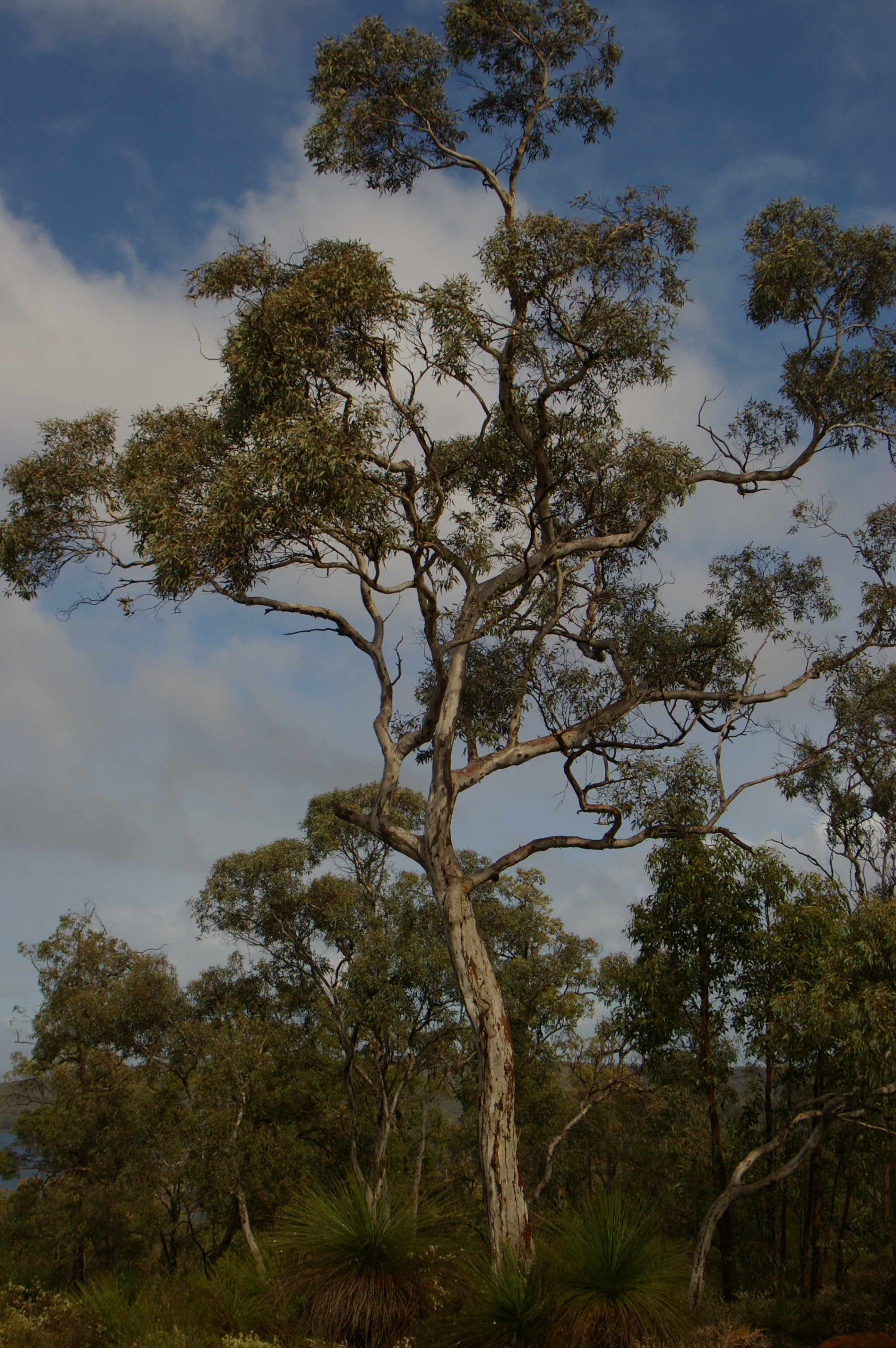 Taken in the Beelu National Park Eucalyptus wandoo